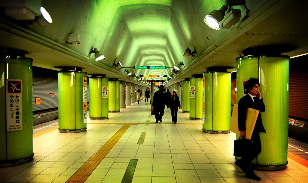 This photo is of the Iidabashi station in Tokyo, Japan. Taken by Natasha Ryan.